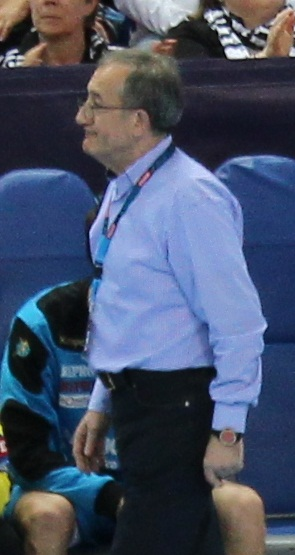 Lino Červar 2014